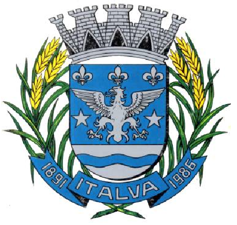 (Coat of arms of Italva, Rio de Janeiro state, Brasil Emerson